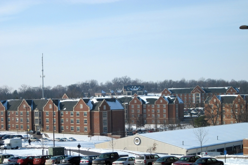 Southwestern portions of the Lindenwood University campus.